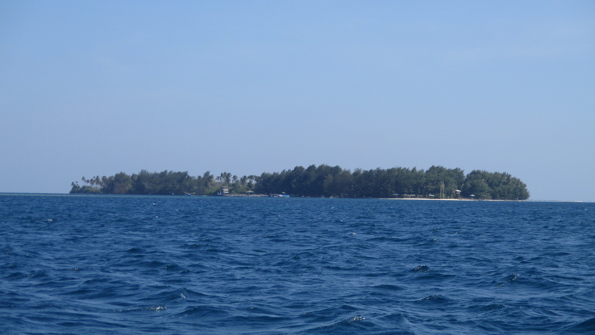 Pulau Menjangan Kecil merupakan pulau yang berada di sebelah selatan Pulau Karimunjawa